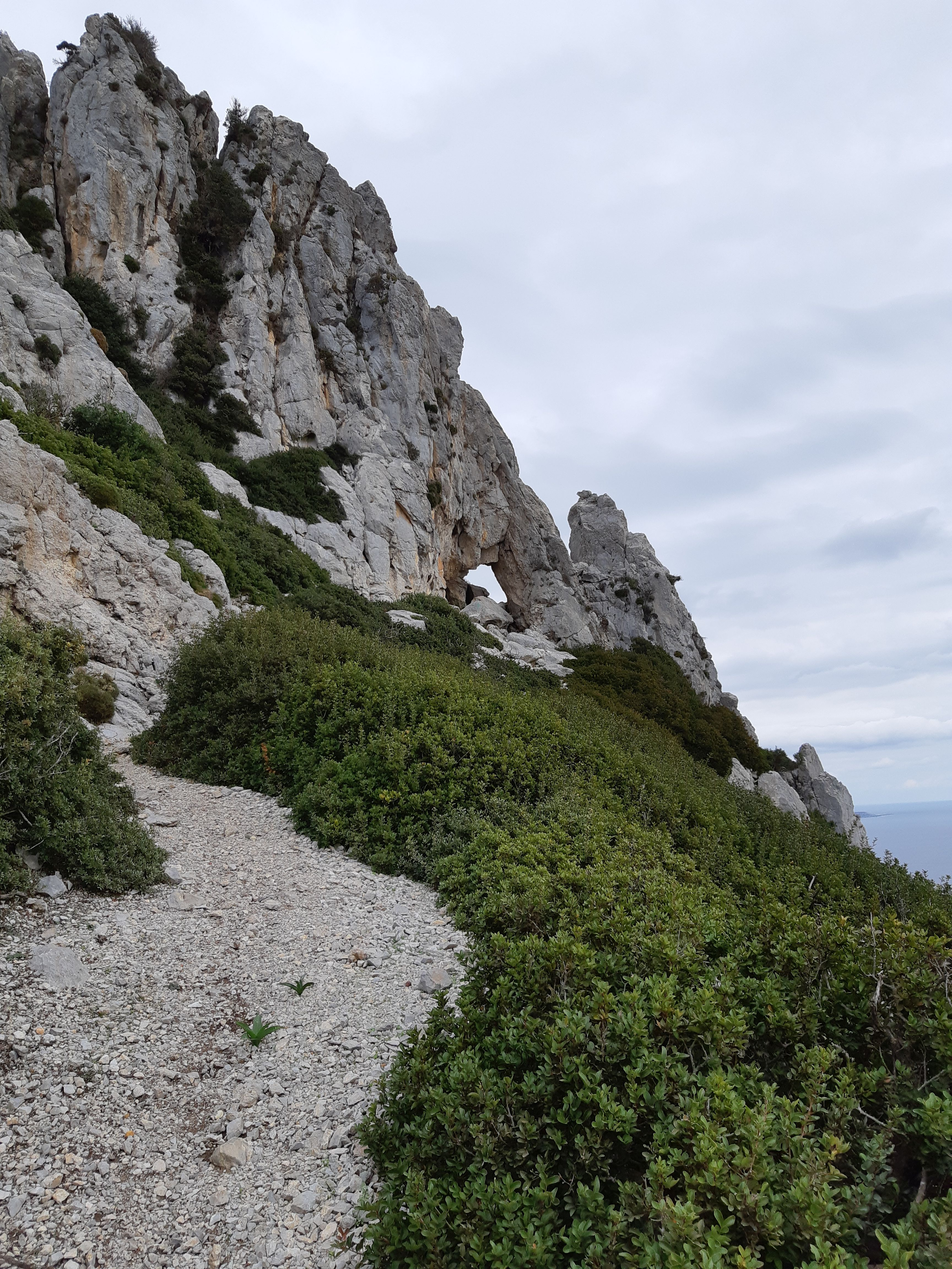 Aspri Petra (AΣΠΡH ΠETPA) on the Kefalos peninsula on the Greek island of Kos. White rocks formations.